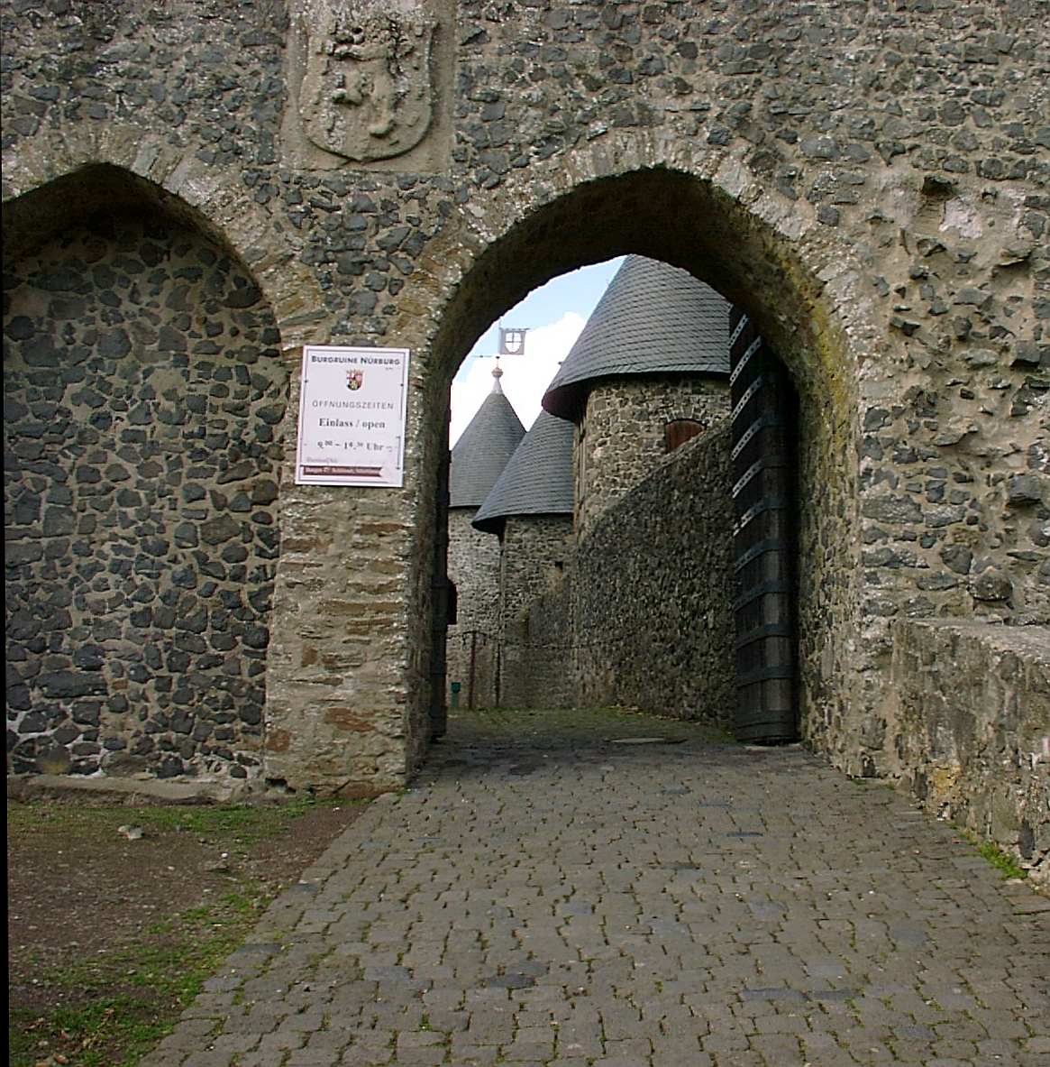 Entry to the Nürburg, a ruined castle in Rhineland-Palatinate, Germany